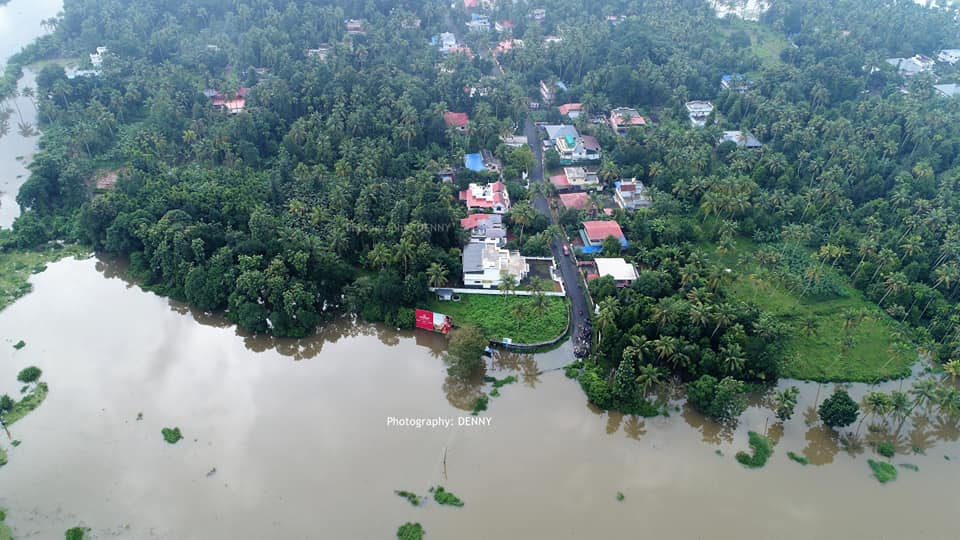 Karoor